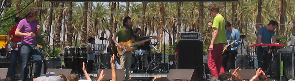 !!! Perform at the 2004 Coachella festival in Indio California